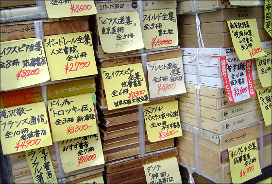 Booktown, Yasukunidori, Jinbocho